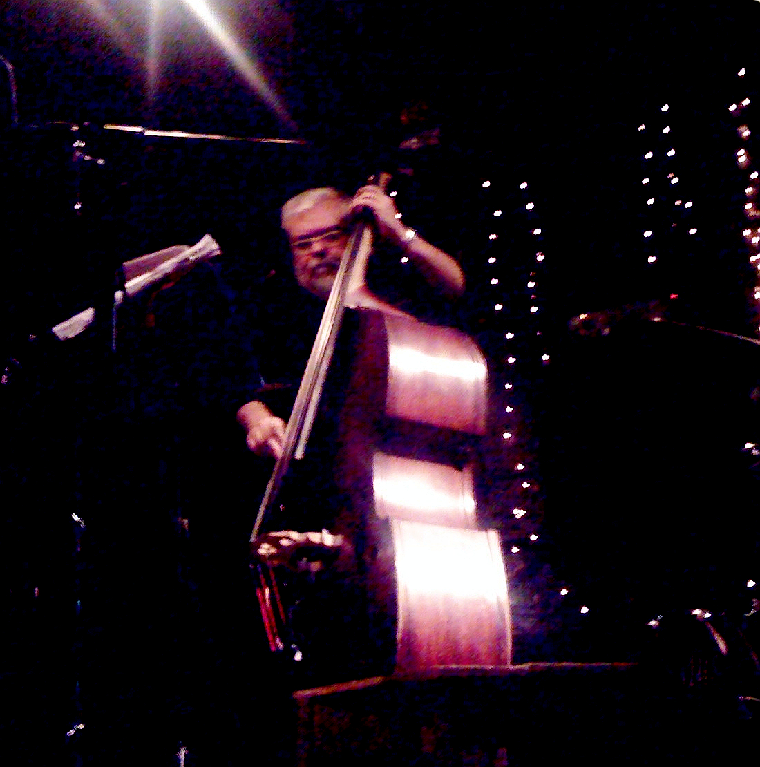 Hernán Merlo at Thelonious Club in Buenos Aires